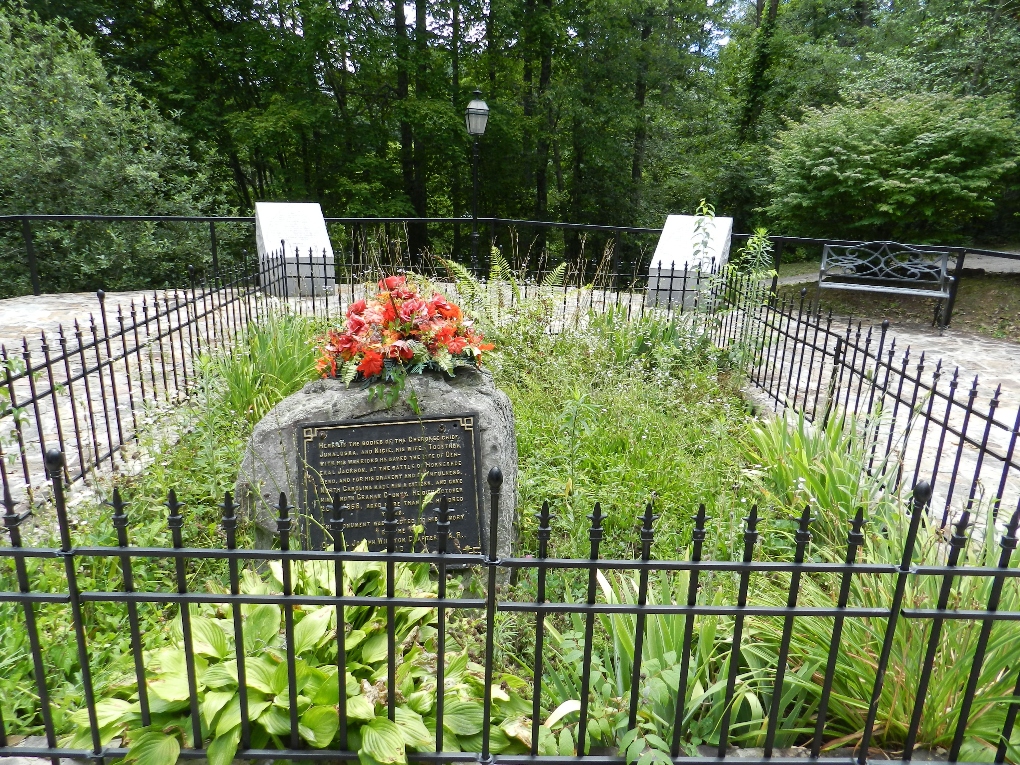 Gravesite og Cherokee Chief Junaluska in Robbinsville, North Carolina